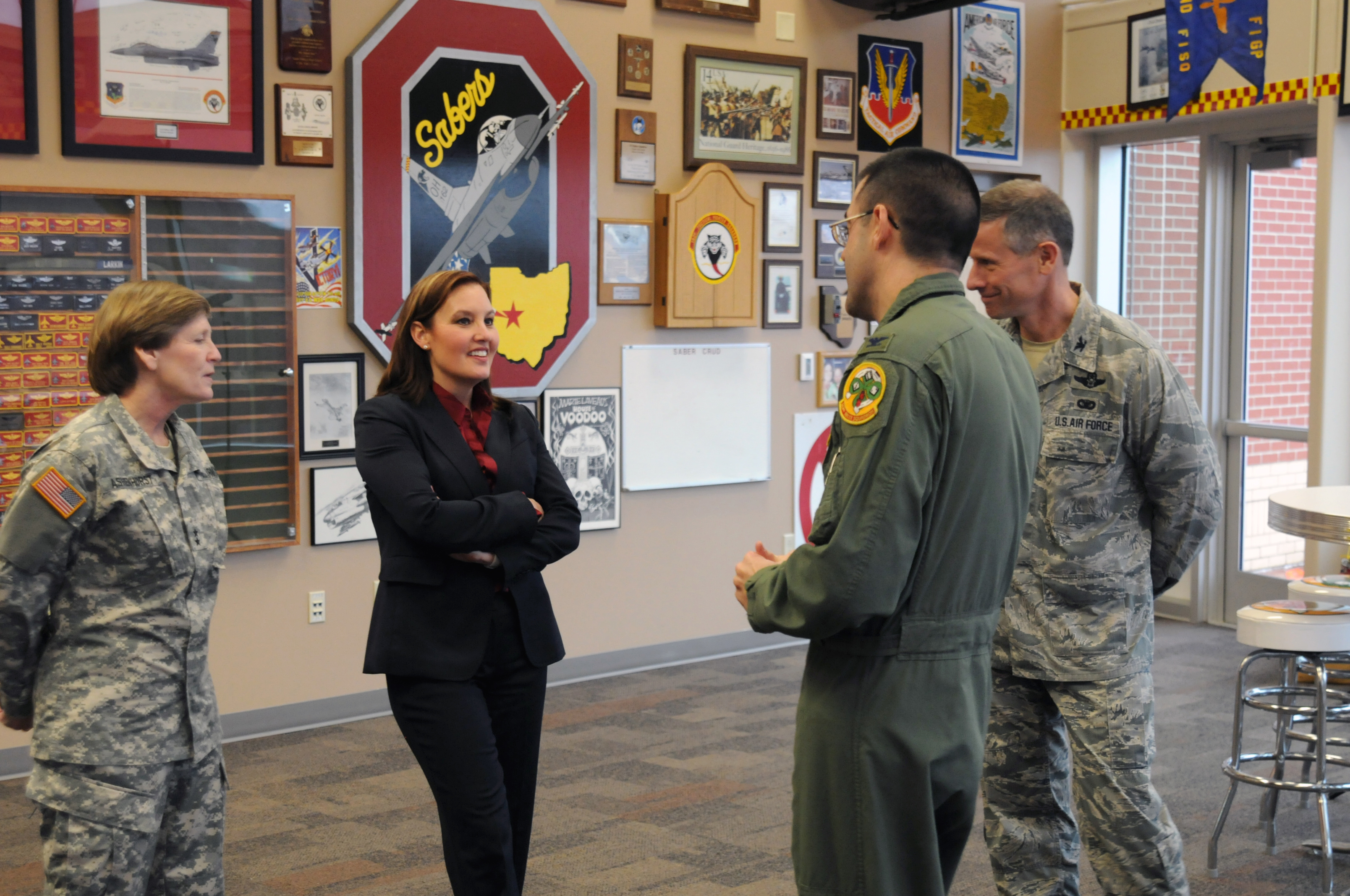 Ohio Lt. Gov. Mary Taylor visits the 178th Fighter Wing, Springfield Air National Guard Base, Ohio March 19 to learn about the wing's new missions and share the state proposal to allow veterans returning home more opportunities earning college credit. Col. Greg Schnulo, 178th Fighter Wing Commander, (far right) and Col. Bryan Davis, 178th Reconnaissance Group Commander, (right) explain the wing's new missions along with Maj. Gen. Deborah Ashenhurst, Ohio adjutant general (left).(Ohio Air National Guard photo by Senior Master Sgt. Joseph Stahl/Relesed)